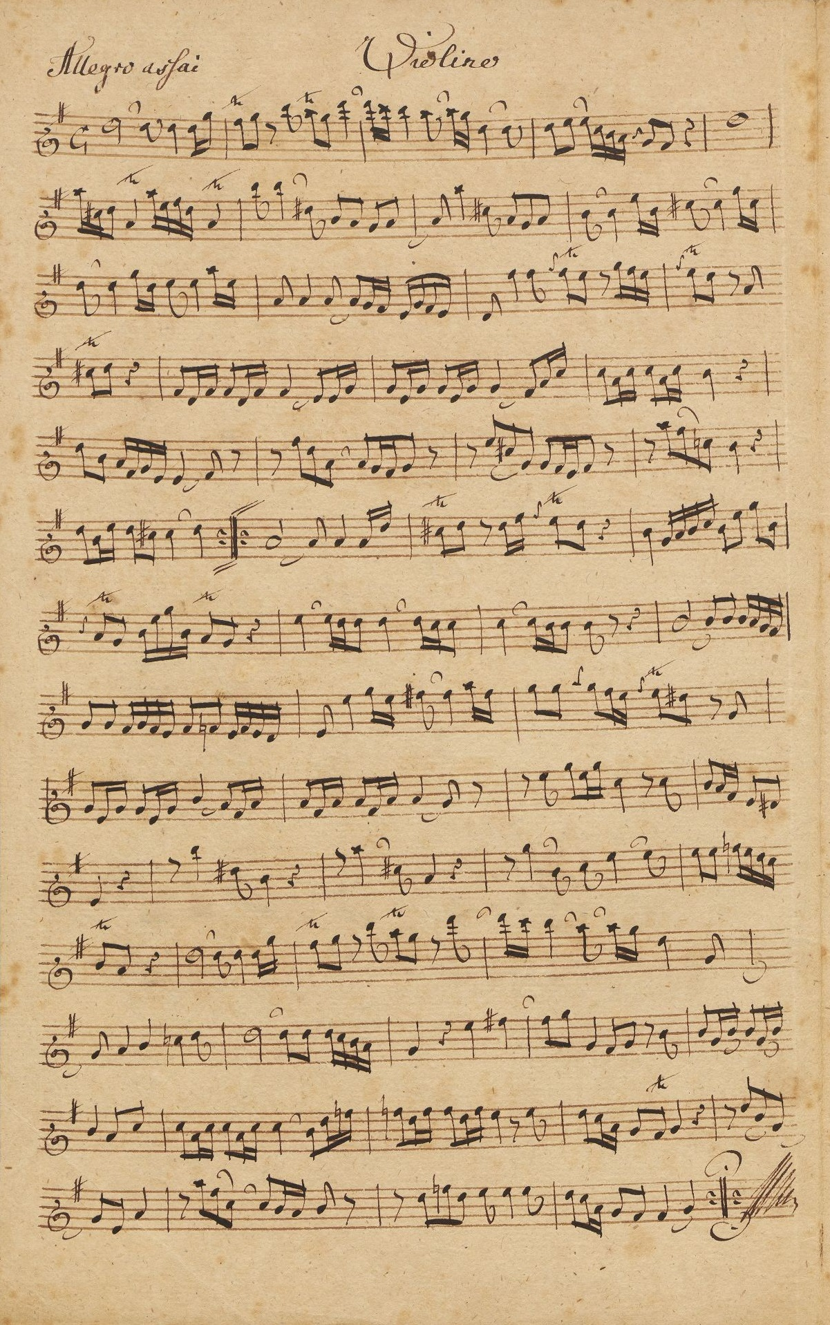 Sheet music: Sonata per il clavicembalo col violino: del Sig[nor]e Giovanni Ernesto Bach ("Sonata for harpsichord and violin"), by Johann Ernst Bach (1722-1777). In unidentified hand. Page 2. MS Mus 71, Houghton Library, Harvard University